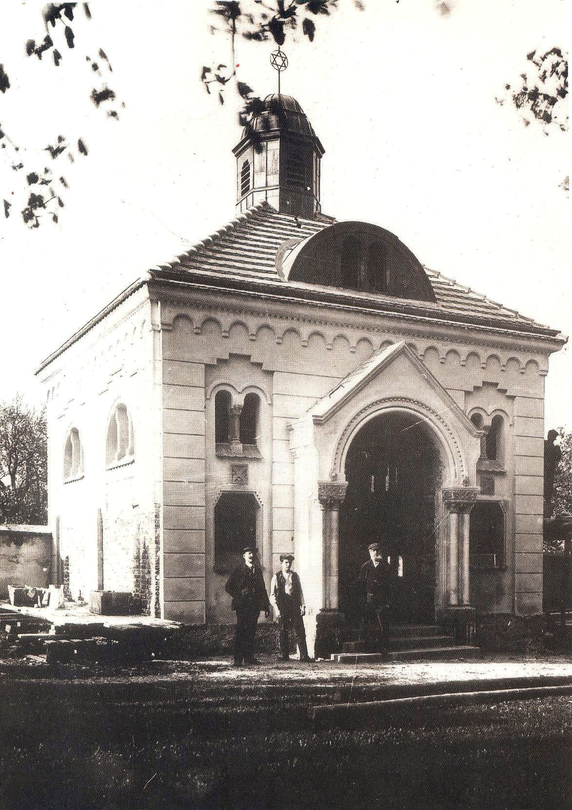 Ceremonial hall at New Jewish cemetery in Ústí nad Labem, Czech Republic (then Austria-Hungary) Česky: Obřadní síň na novém židovském hřbitově v Ústí nad Labem.